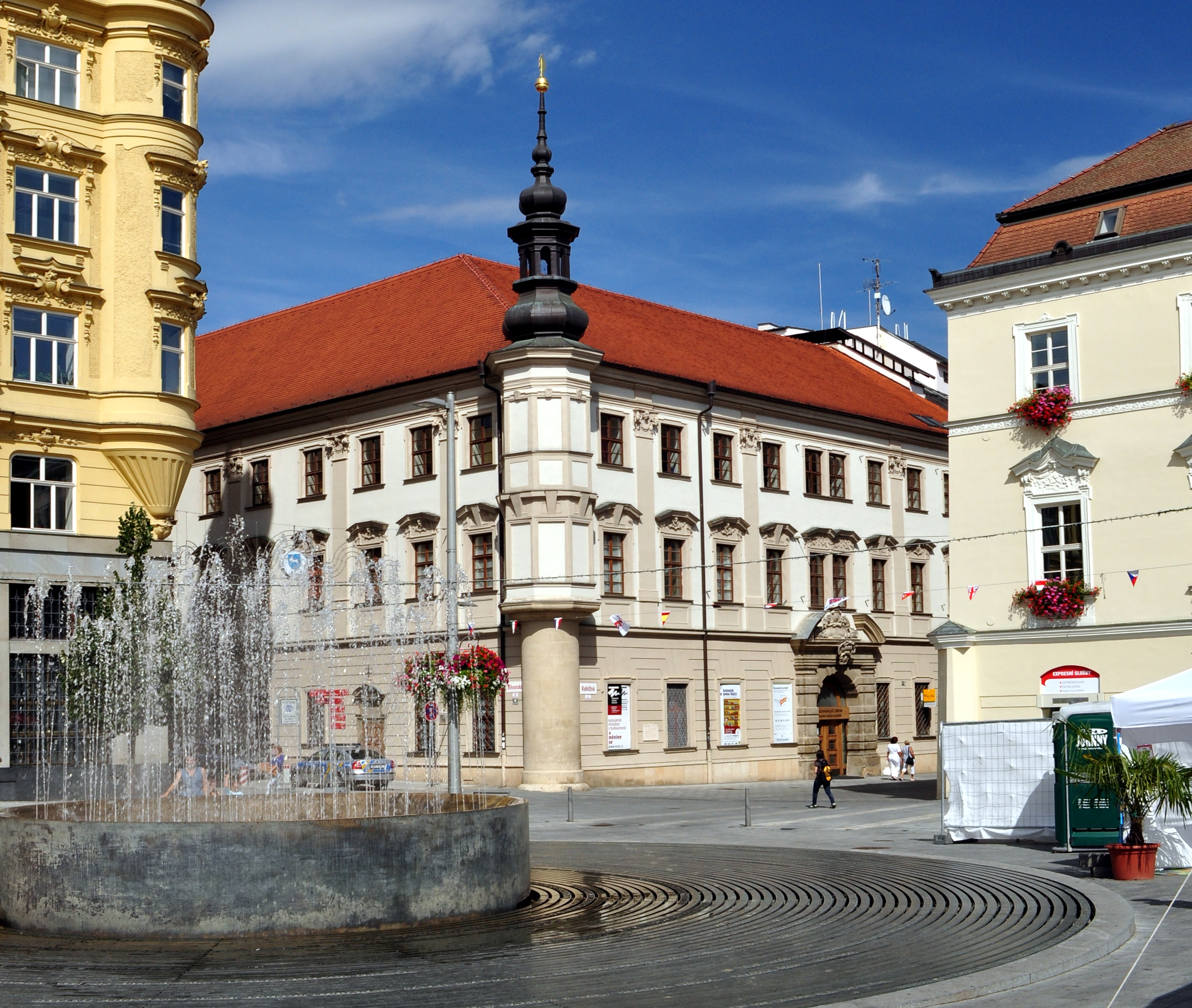 Brno, House of Noble Ladies